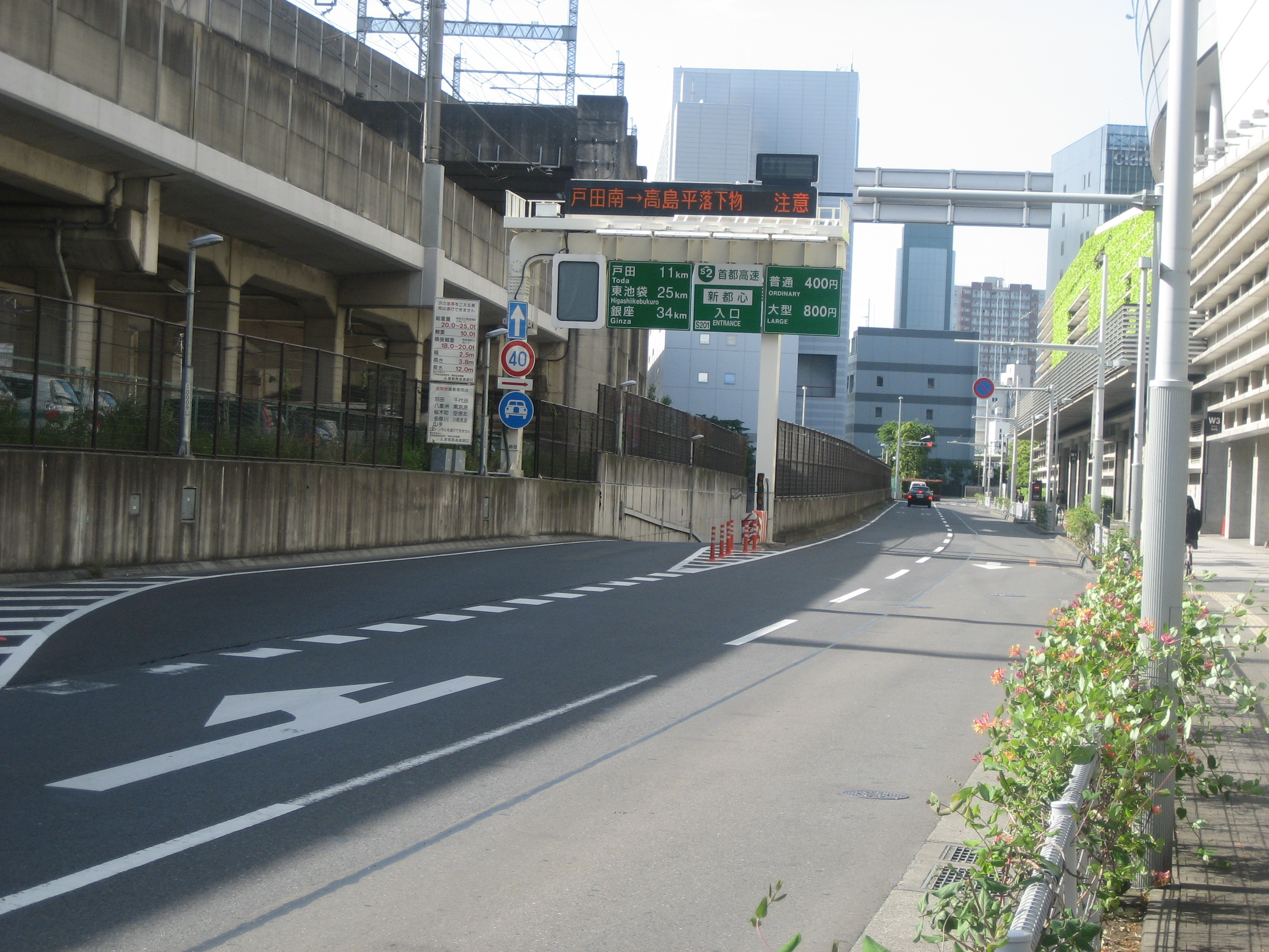 Shintoshin Interchange on the Metropolitan Expressway Route S2, entrance for Tokyo